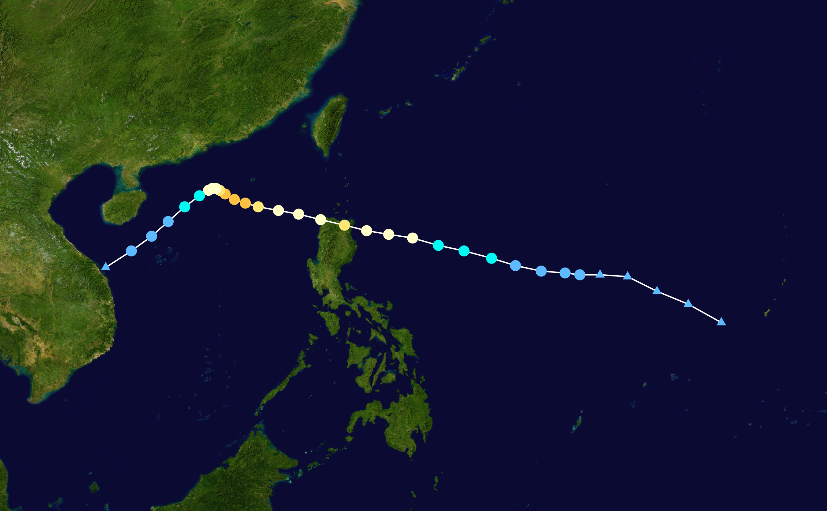 Track map of Typhoon Krosa of the 2013 Pacific typhoon season. The points show the location of the storm at 6-hour intervals. The colour represents the storm's maximum sustained wind speeds as classified in the Saffir–Simpson scale (see below), and the shape of the data points represent the nature of the storm, according to the legend below. Saffir–Simpson scale Tropical depression≤38 mph≤62 km/h Category 3111–129 mph178–208 km/h Tropical storm39–73 mph63–118 km/h Category 4130–156 mph209–251 km/h Category 174–95 mph119–153 km/h Category 5≥157 mph≥252 km/h Category 296–110 mph154–177 km/h Unknown Storm type Tropical cyclone Subtropical cyclone Extratropical cyclone / Remnant low / Tropical disturbance / Monsoon depression